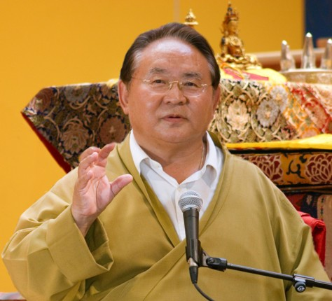 Sogyal Rinpoche teaching in Lerab Ling, 2006